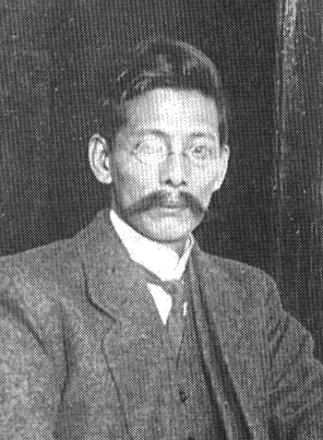 Kochō Baba (1869–1940) was a Japanese Anglicist.